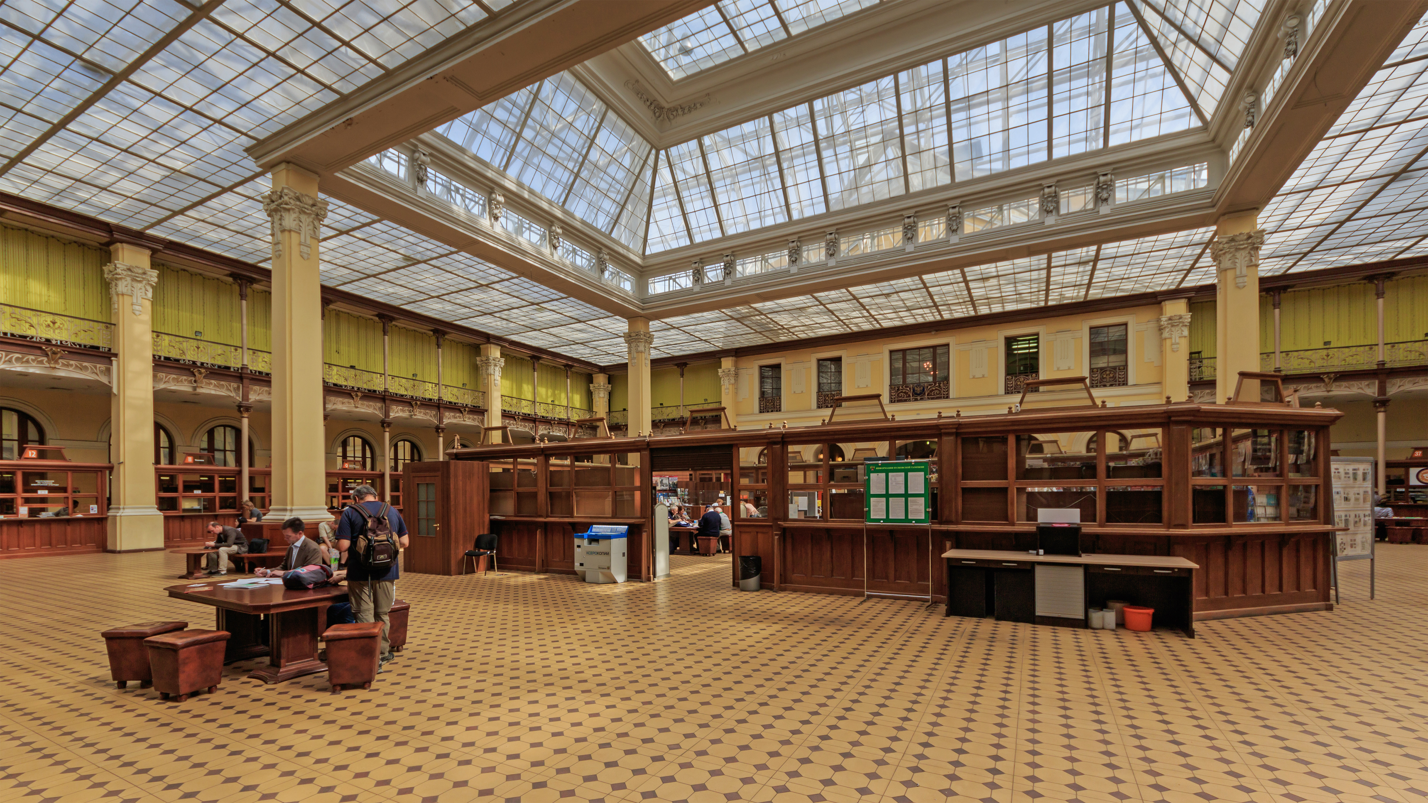 Interior of the Main Post Office in Saint Petersburg (Russia).